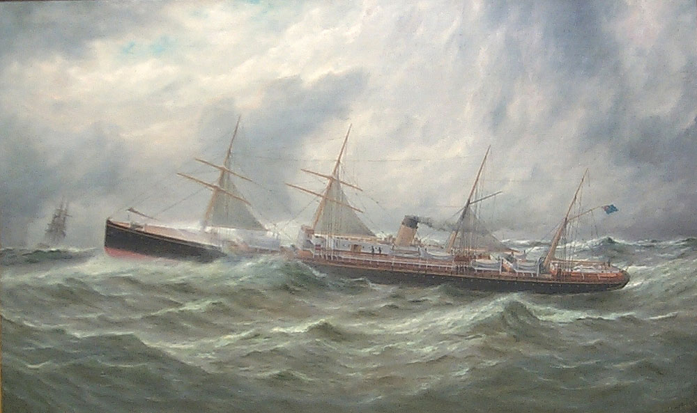 White Star Liner Adriatic (1871). Oil on Canvas, 22 ¼ x 36 inches.